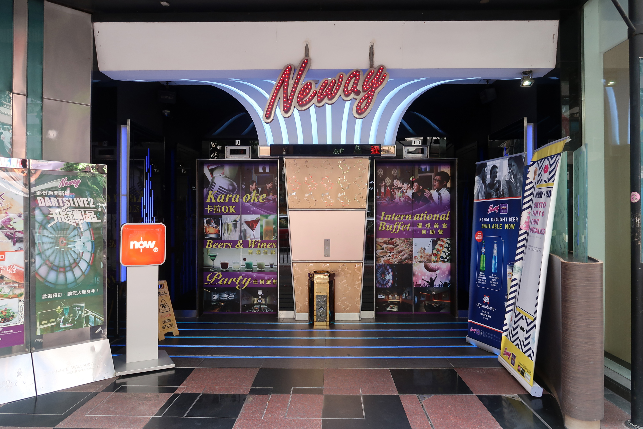 Novotel Century Hong Kong Neway